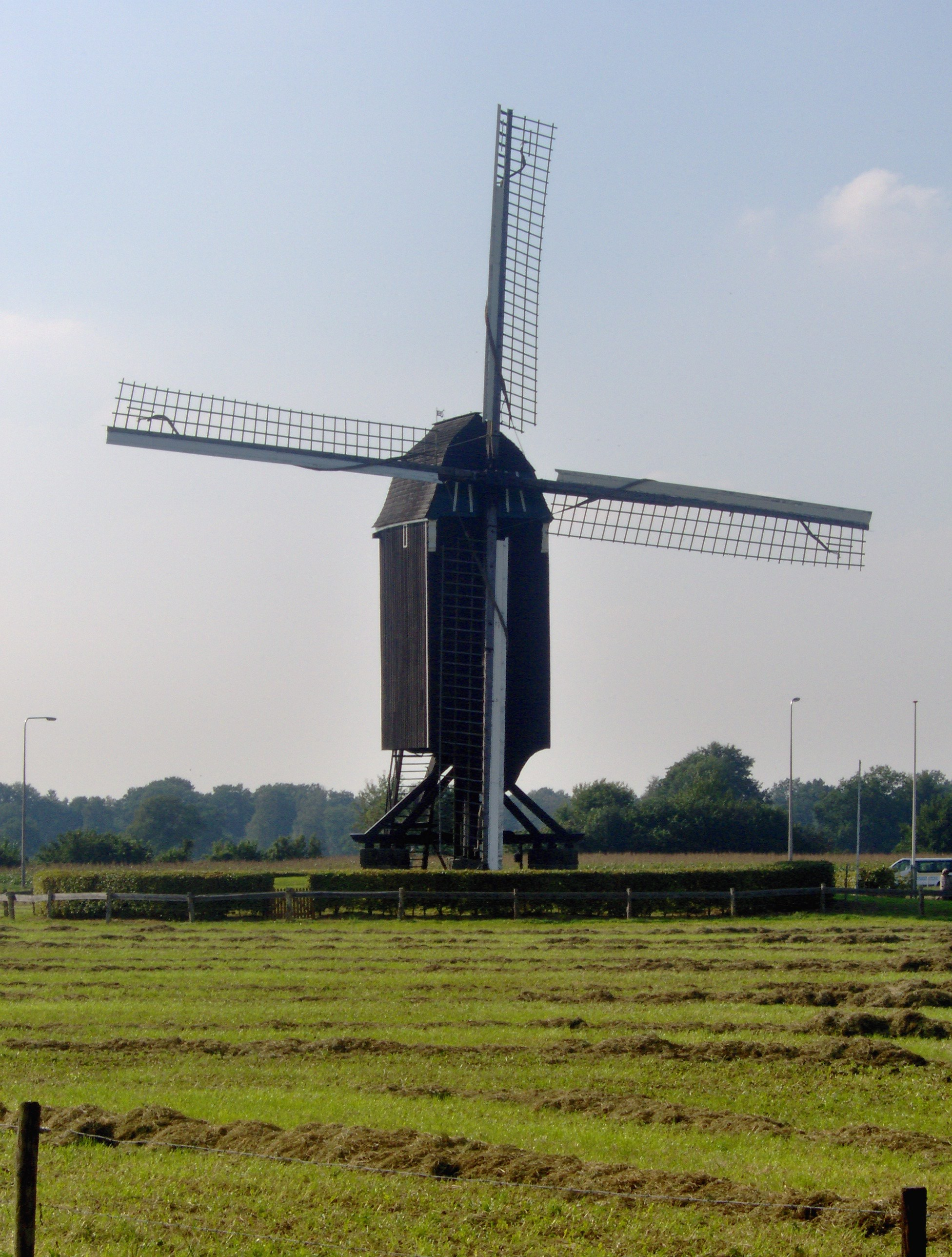 The Wissinks Möl, a windmill of the rare Stenderkast model in Usselo, a village in the municipality of Enschede, Netherlands